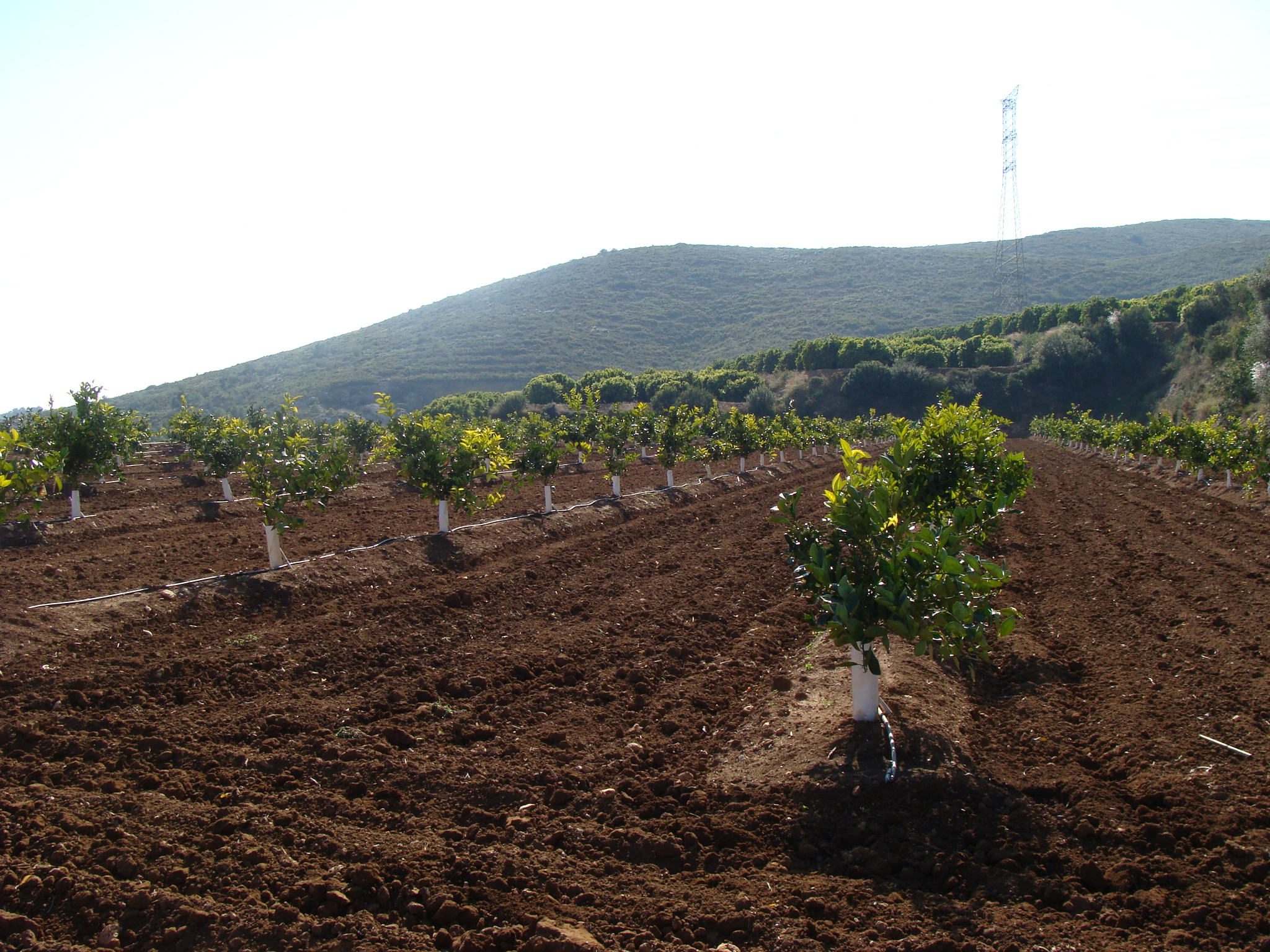 Drip irrigation in a plot of young orange-plants at La Heretat (Catadau, Valencia).